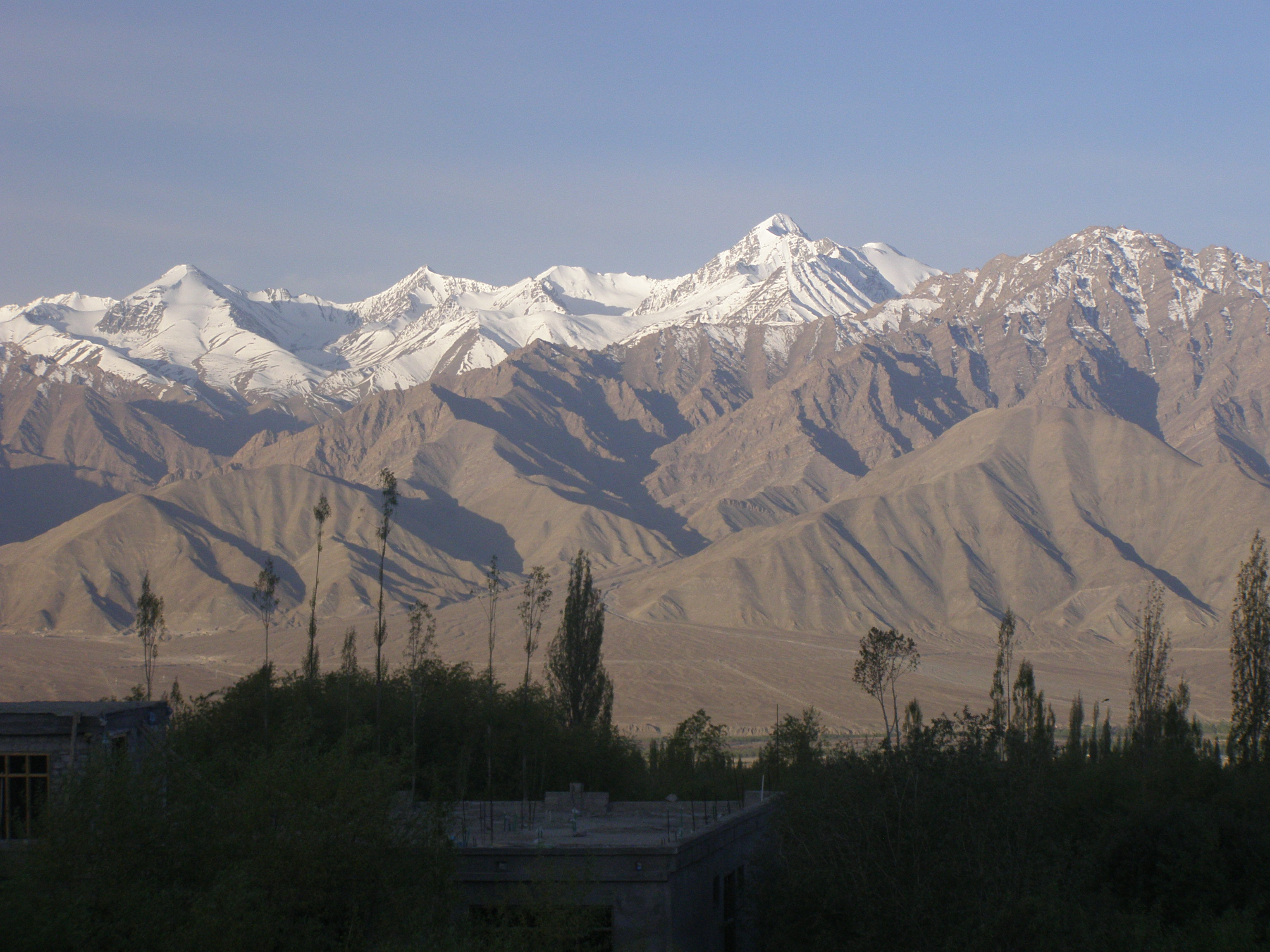 View of the Zanskar range and the peak of Stok Kangri (6153 m) from the top of Leh town, Ladakh, NW Indian Himalaya. View is to the south.